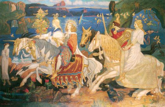 Riders of the Sidhe